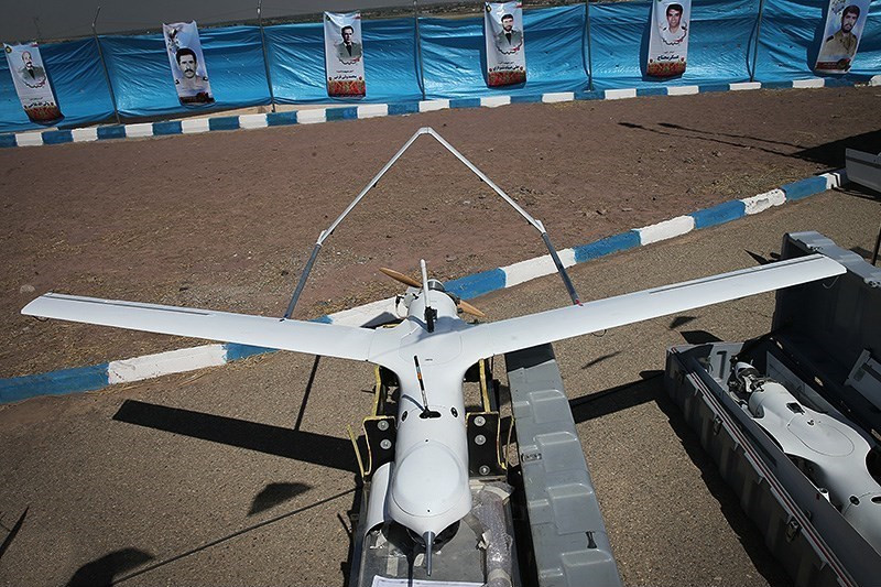 Iranian arms expo with Yasir UAV.